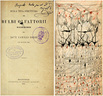 The first illustration by Golgi of a Golgi-impregnated preparation of the nervous system. “Semi-schematic drawing of a fragment of a vertical section of the olfactory bulb of a dog” (Golgi, 1875).